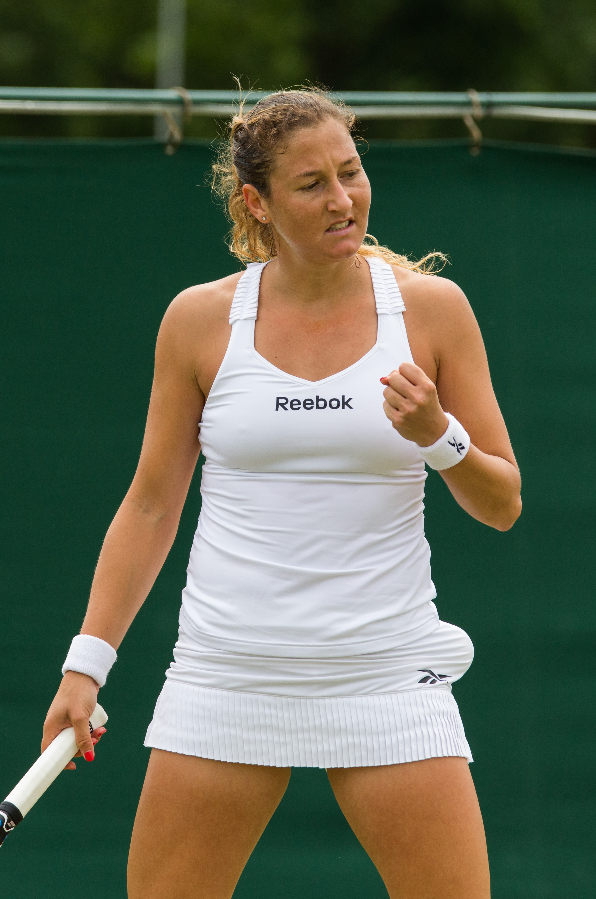 Shahar Pe'er competing in the first round of the 2015 Wimbledon Qualifying Tournament at the Bank of England Sports Grounds in Roehampton, England. The winners of three rounds of competition qualify for the main draw of Wimbledon the following week.